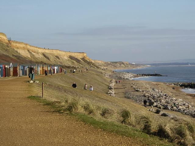 Cliffs and beach at Barton on Sea. Looking east. Note the eroding cliffs and, in the distance, Hurst Point lighthouse.